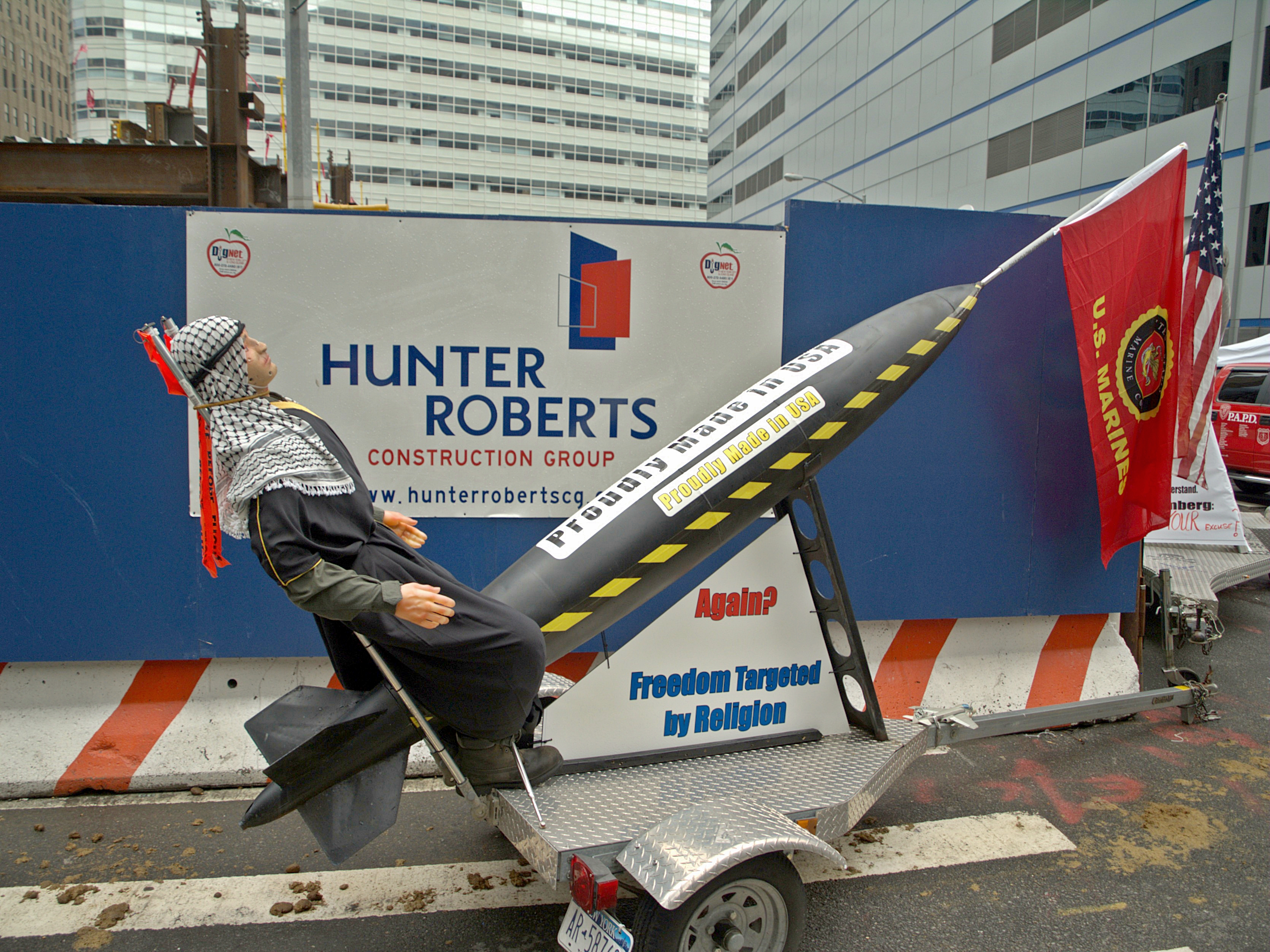 Photos of the Sunday, August 22, 2010 Cordoba House protest.